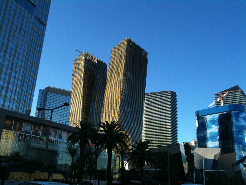 Photo just before the opening of the CityCenter project in November 2009.